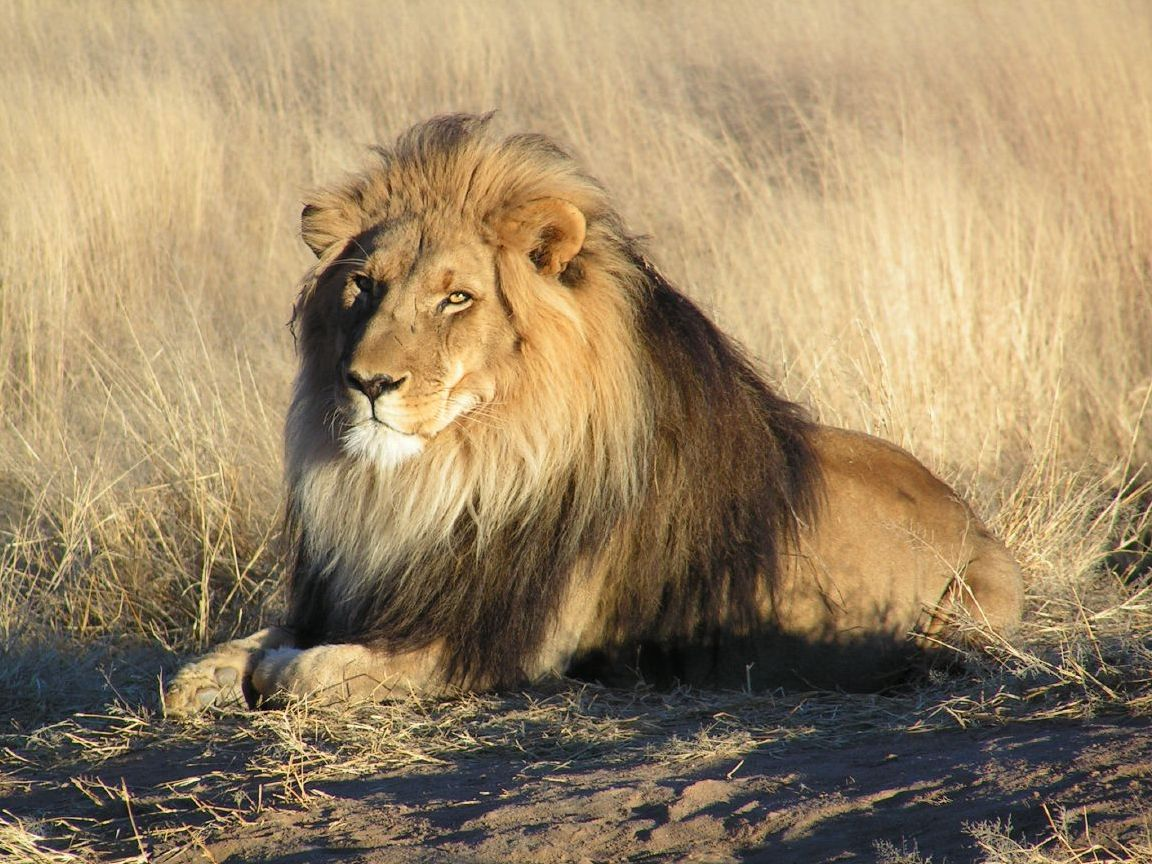 Derived from:File:Lion waiting in Namibia.jpg